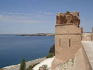 Tower of Qal'at Ja'bar